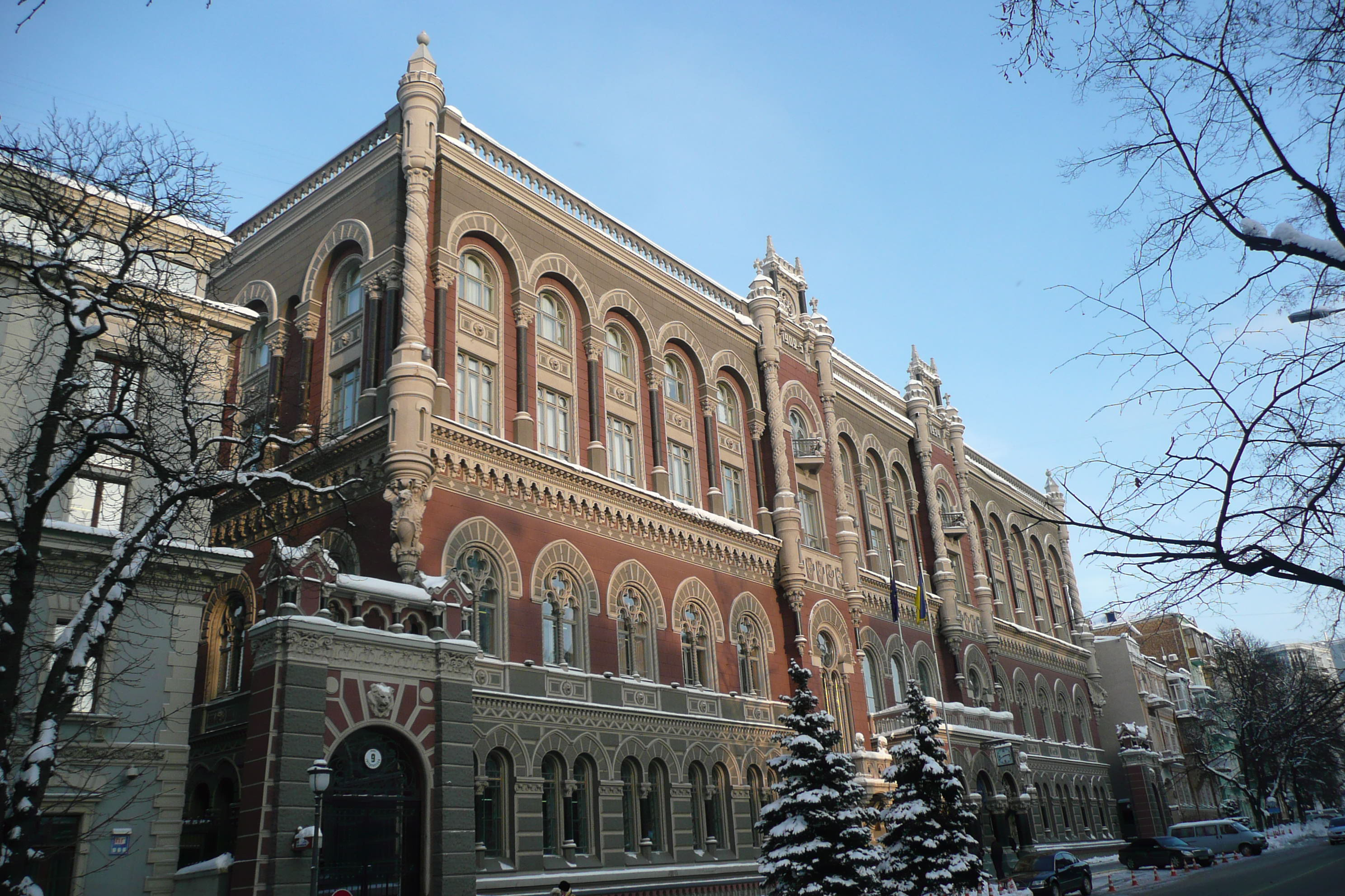 Kiev